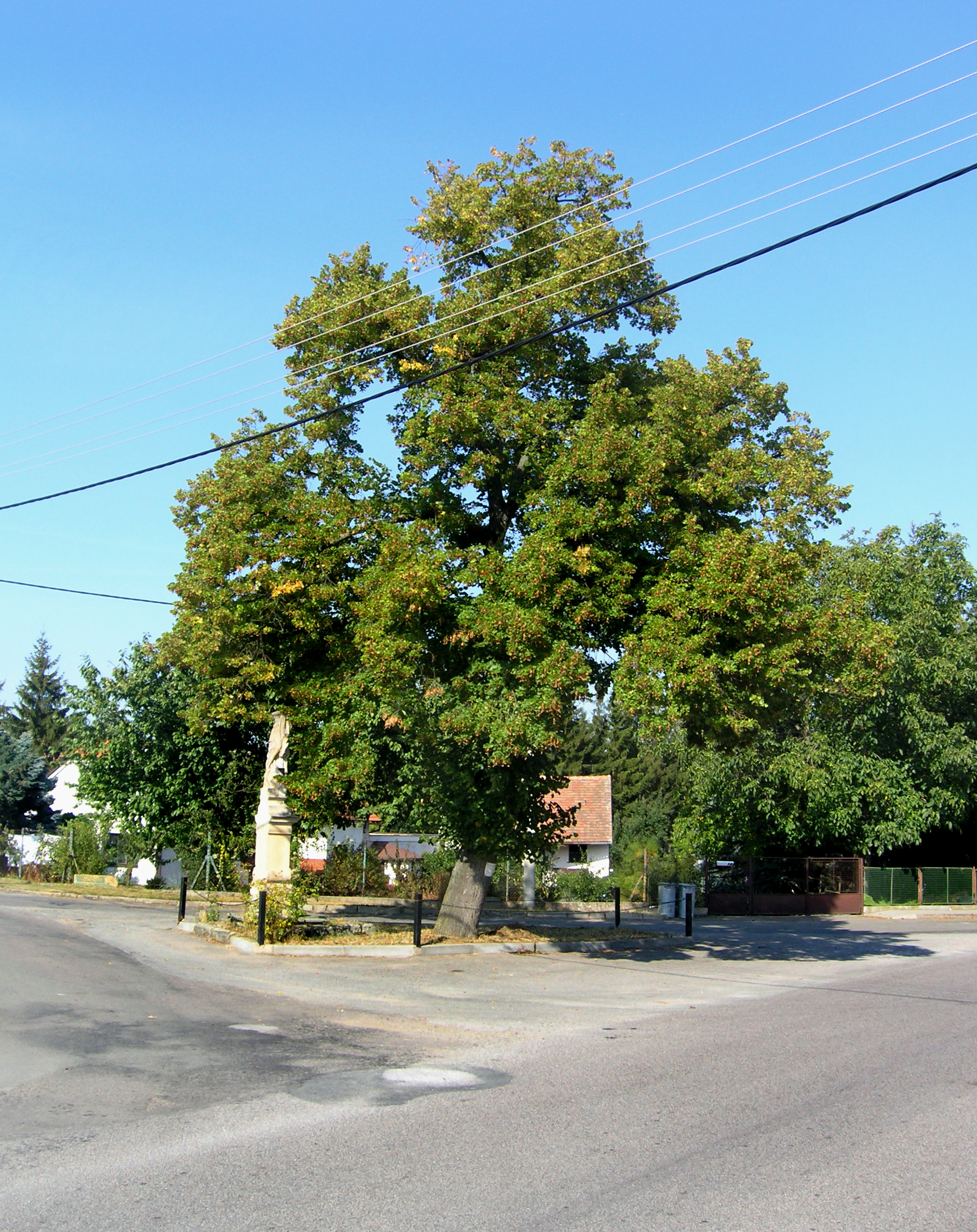 Common in Hřibsko, part of Stěžery village, Czech Republic